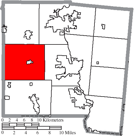 Map of the municipal and township boundaries of Miami County, Ohio, United States, as of the 2000 census, with the location of Newton Township highlighted. Township borders are shown only in unincorporated areas in order to differentiate incorporated and unincorporated areas more clearly.